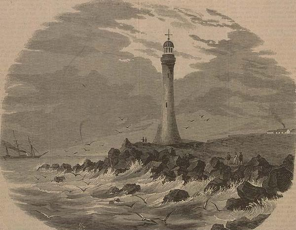 Gabo Island Lighthouse, New South Wales, Australia